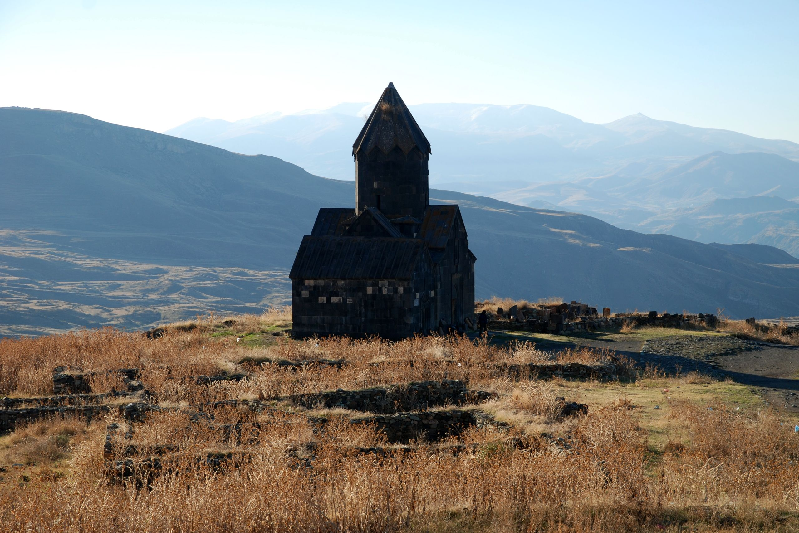 Tanahat from north